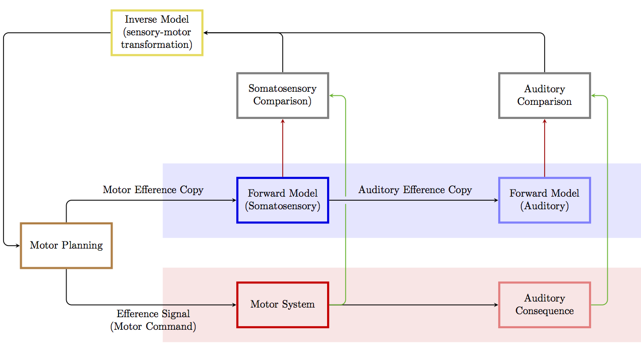 Image showing the process of efference copies in a forward model environment. Modified to improve and correct the original which mistakenly showed corollary discharge as distinct from efference copy in a way that it is not. Modified to more closely resemble Version 2, showing more clearly the pathway between the inverse model and the motor planning.